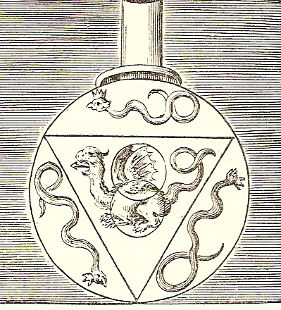 Symbols of sulfur, mercury and salt in alchemical triangle, from Michael Maier's Tripus Aureus, Frankfurt, 1678